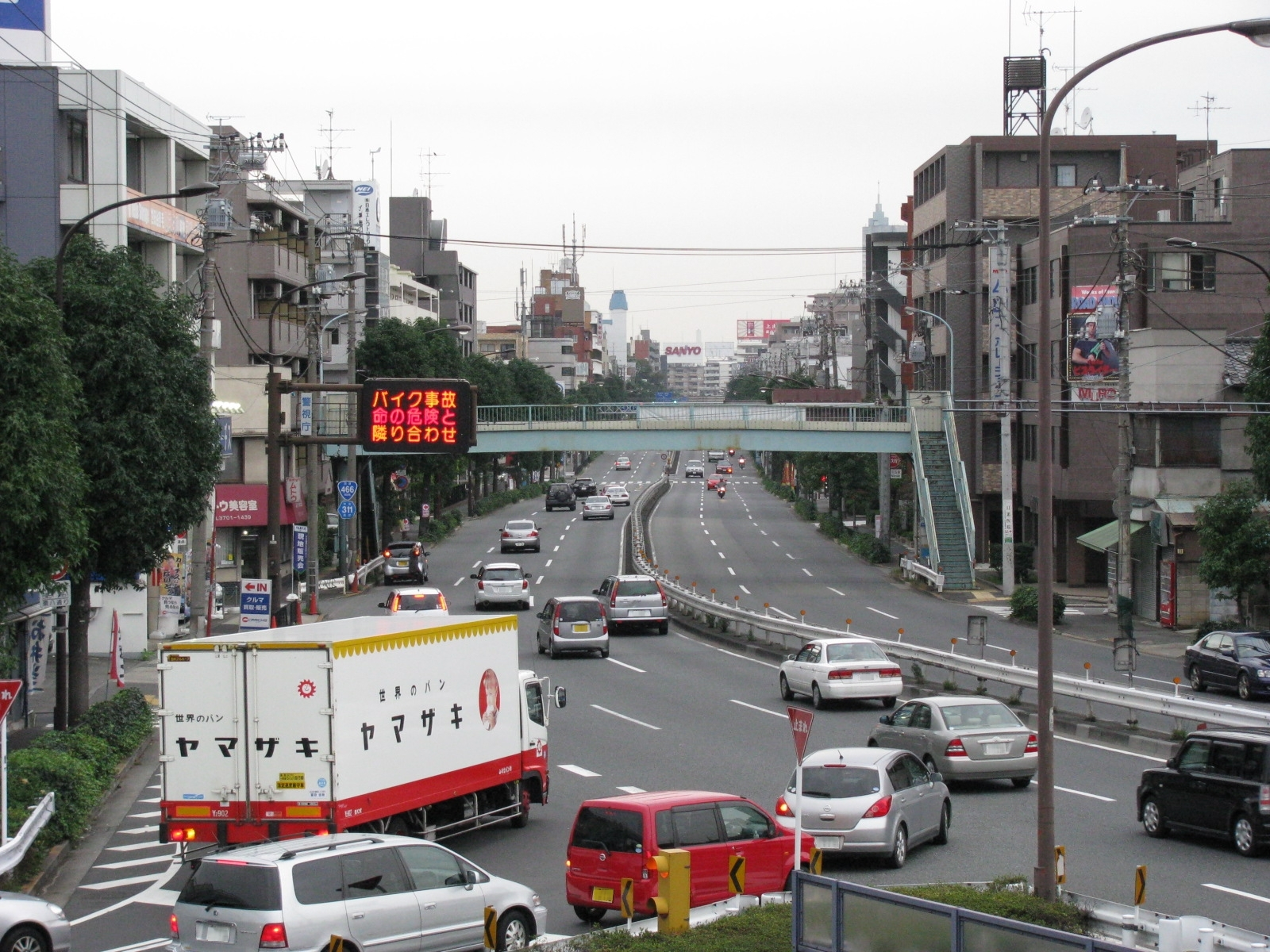 The National Route 466, located in Setagaya, Tokyo, Japan.